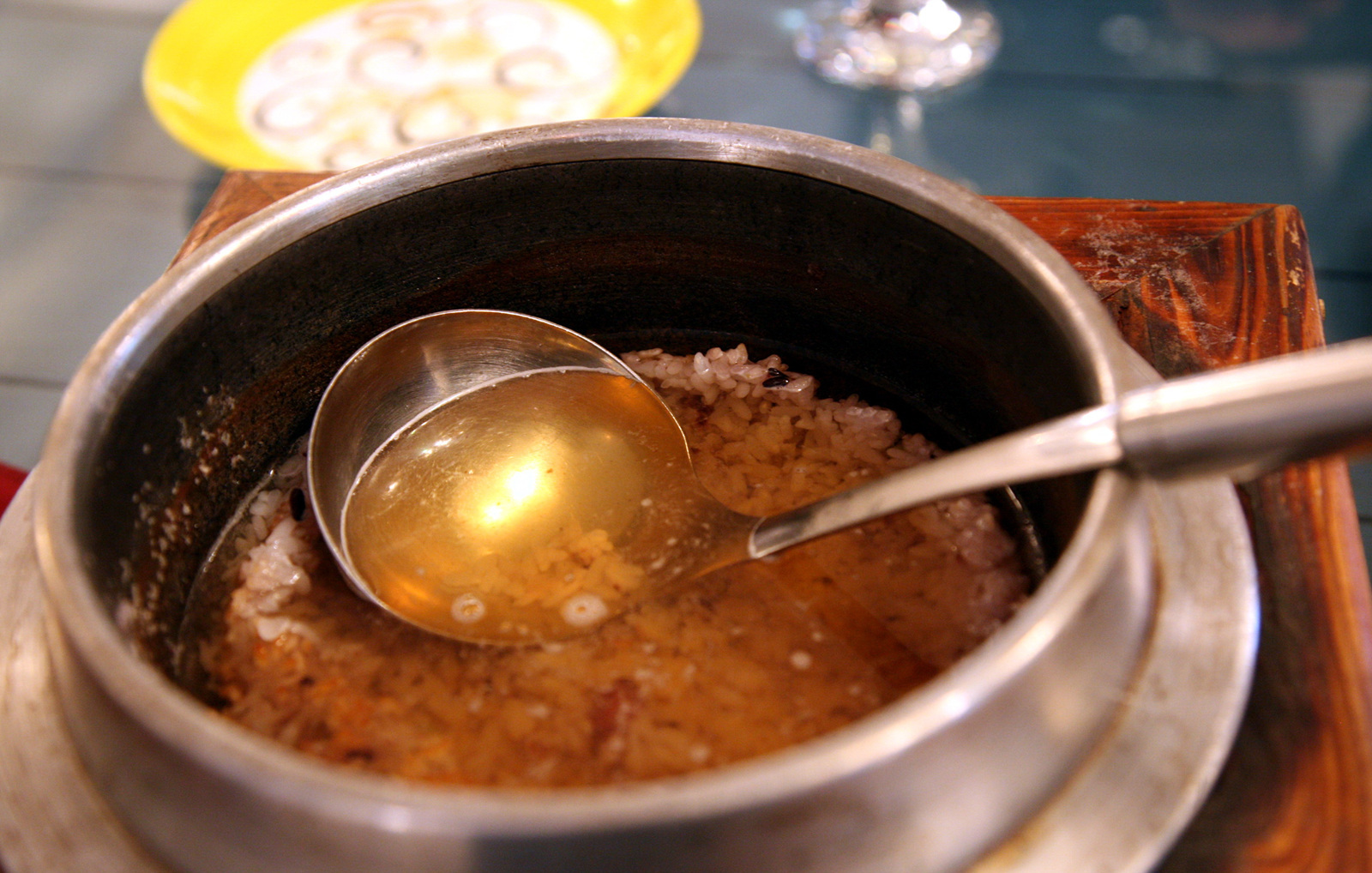 Korean cuisine at a restaurant, Paju city, Gyeonggi province, South Gyeongsang province, South Korea